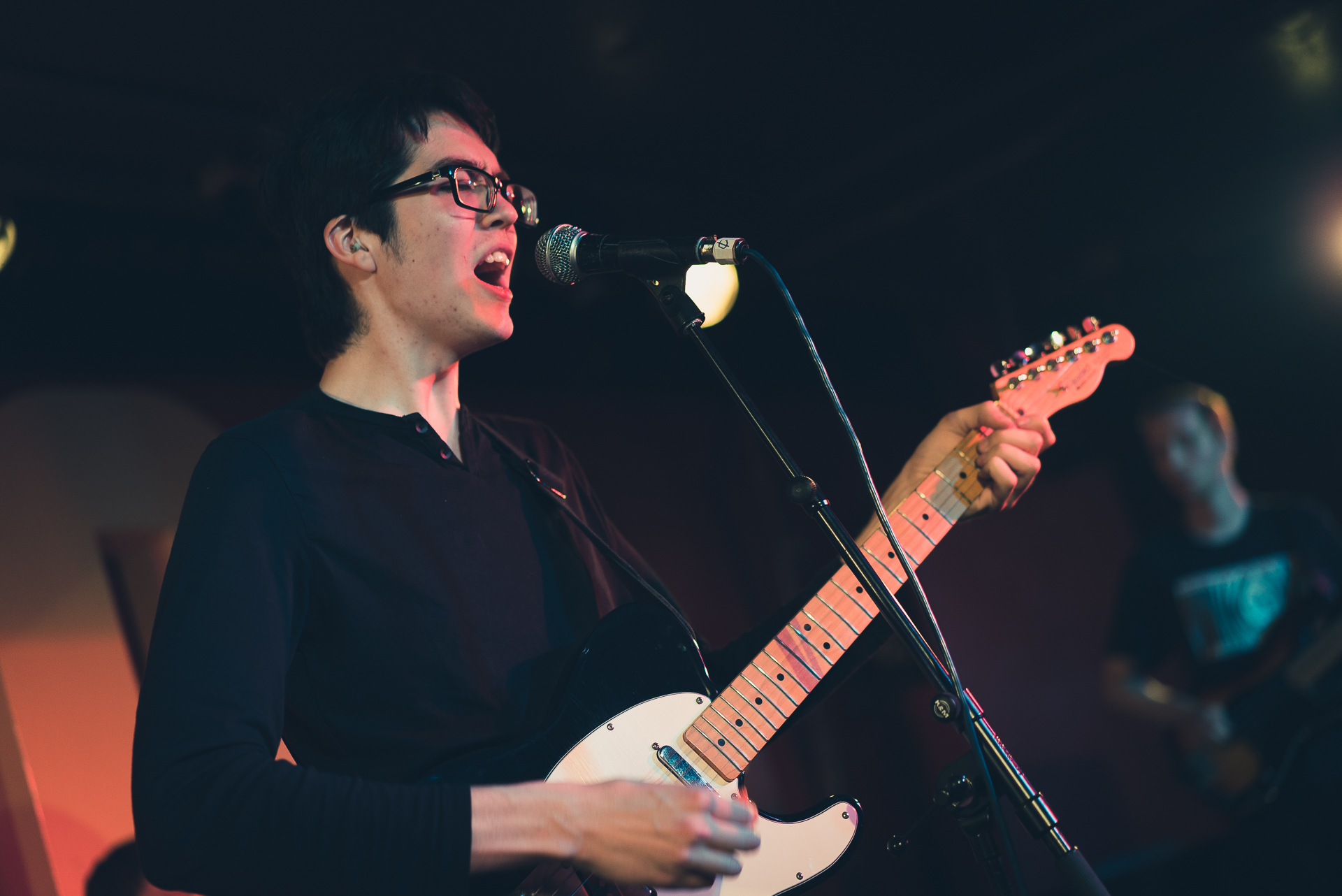 Car Seat Headrest performing at 100 Club in London, England on June 21, 2016